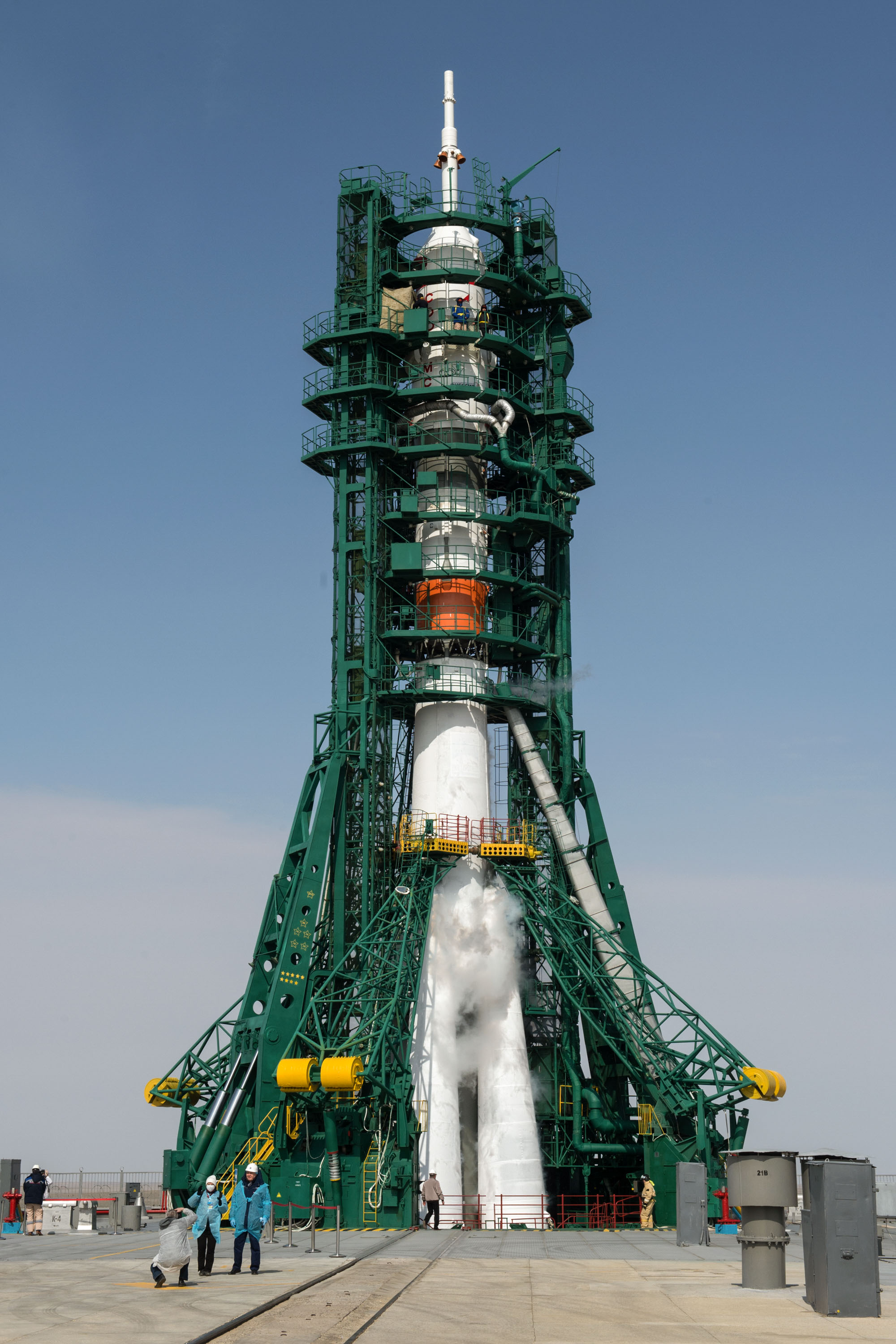 Expedition 63 Preflight - The Soyuz rocket with Expedition 63 crewmembers Chris Cassidy of NASA, Ivan Vagner and Anatoly Ivanishin of Roscosmos onboard is seen a several hours before launch, Thursday, April 9, 2020 at the Baikonur Cosmodrome in Kazakhstan. A few hours later, the trio lifted off on a Soyuz rocket for a six-and-a-half month mission on the International Space Station.